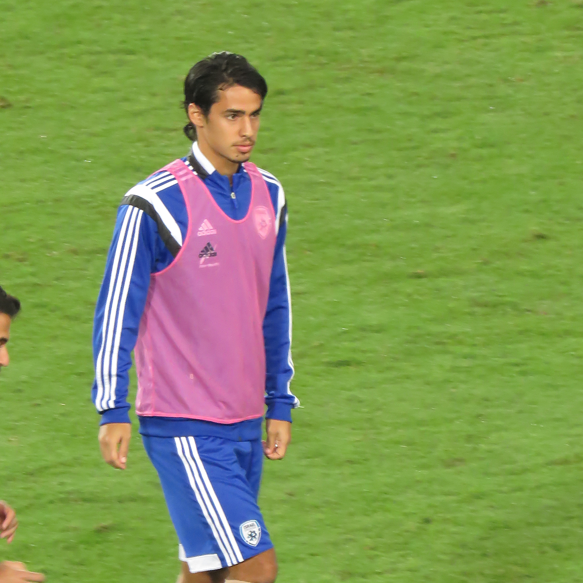 Israel vs. Cyprus - October 10, 2015